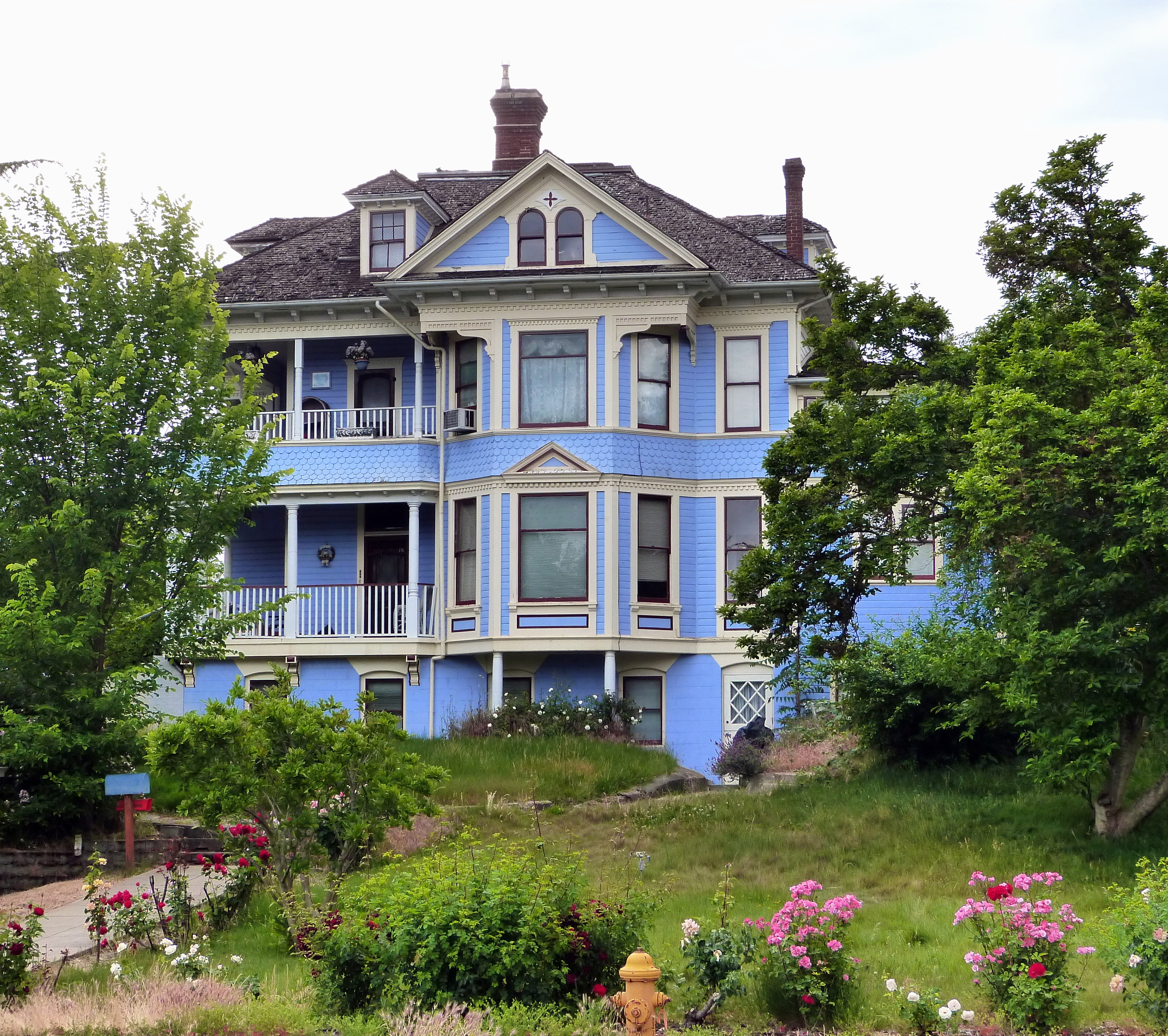 The historic John and Susanna Ahlf House (built 1902), located at 762 Northwest 6th Street in Grants Pass, Oregon, United States, is listed on the US National Register of Historic Places.